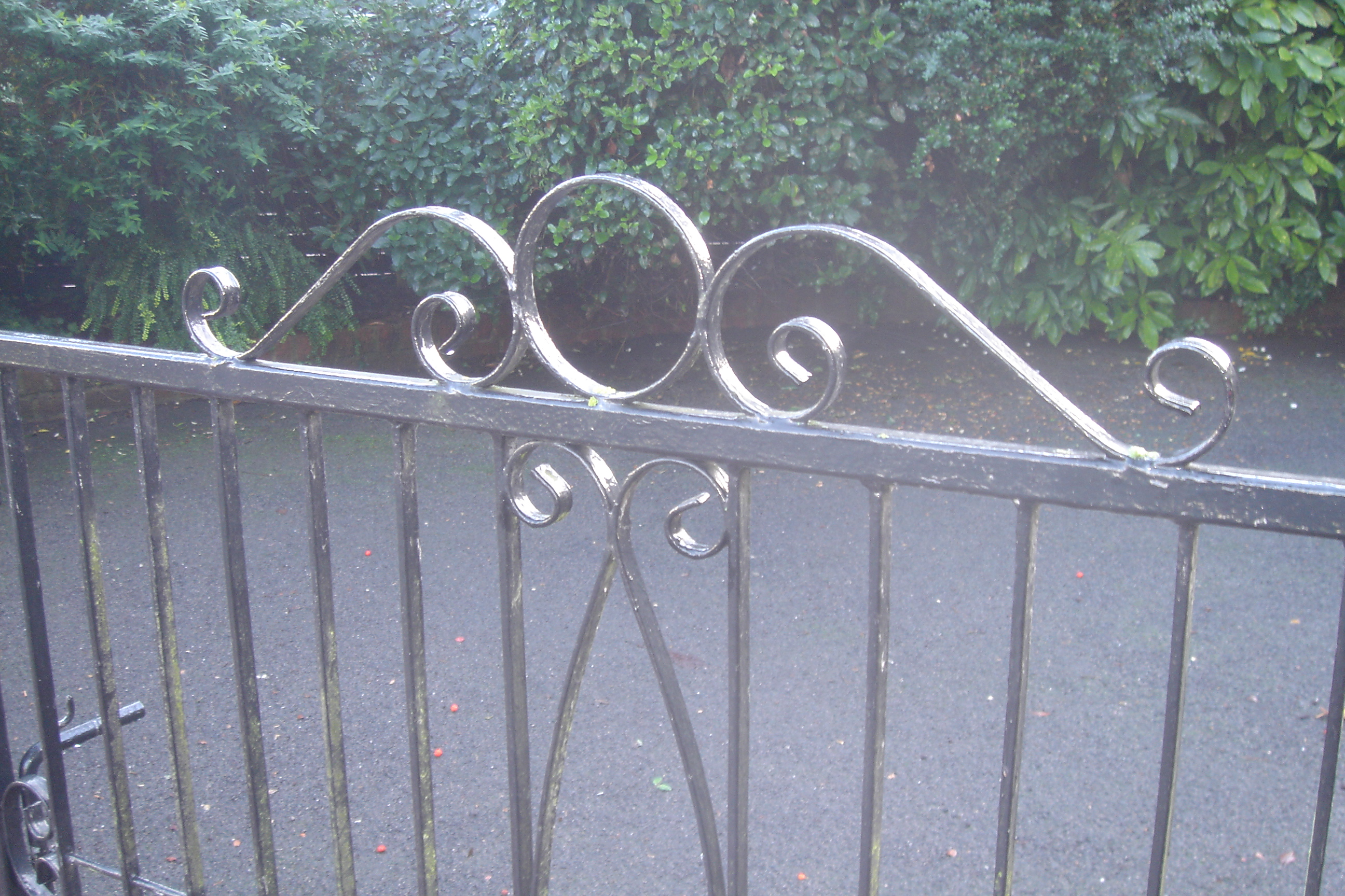 Garden gate, London